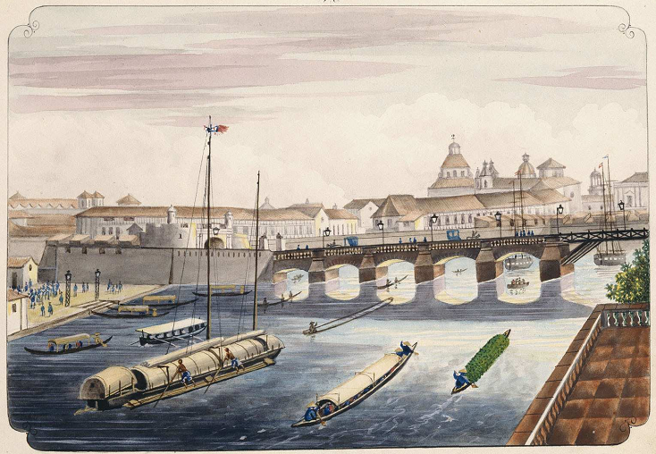 Vista del Puente de Manila (1847) showing the Puente de España of Manila (now replaced by Jones Bridge)